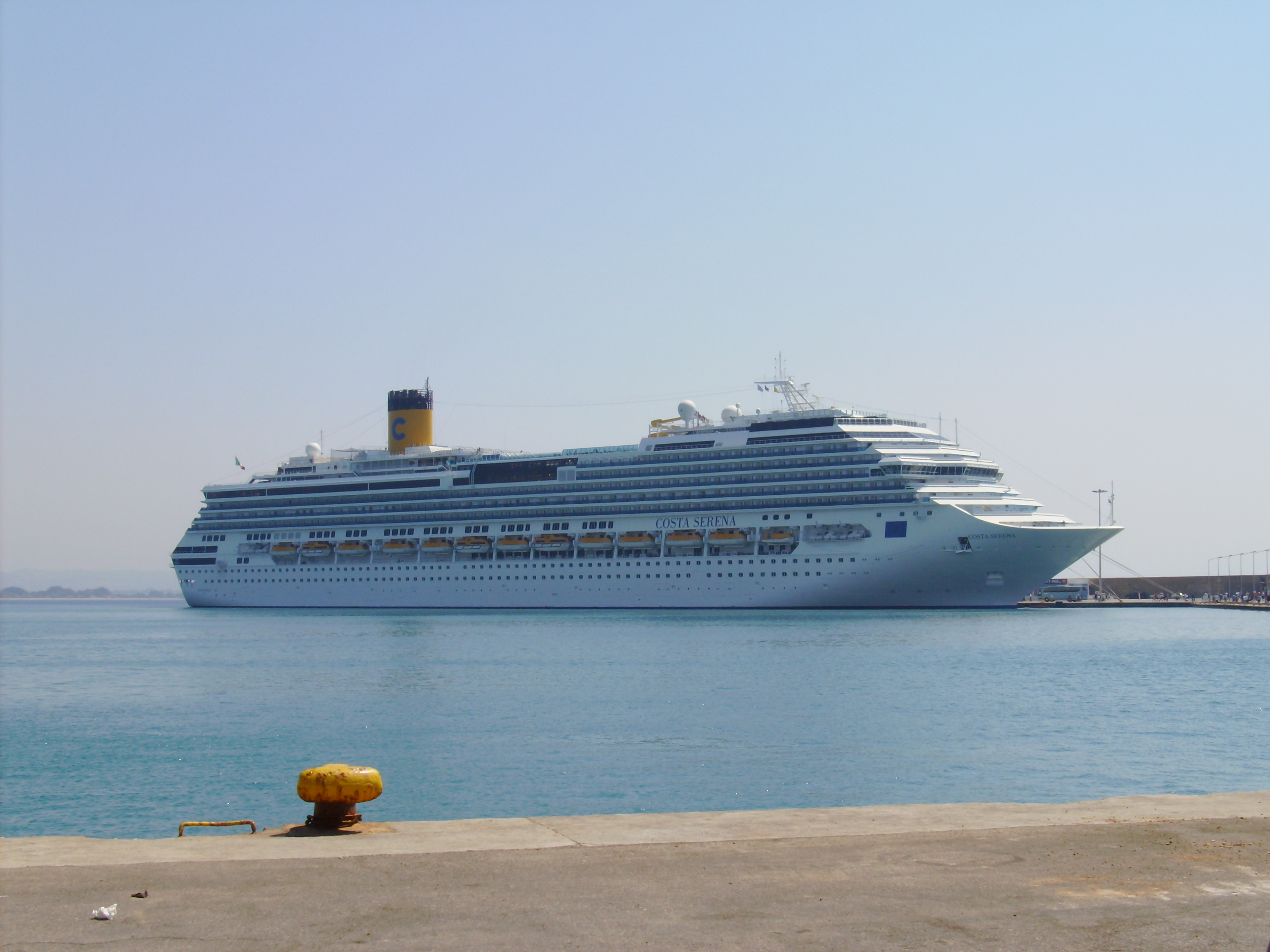 Costa Serena, a cruise ship of Costa Crociere. Photo taken in en:2008 in Katakolo